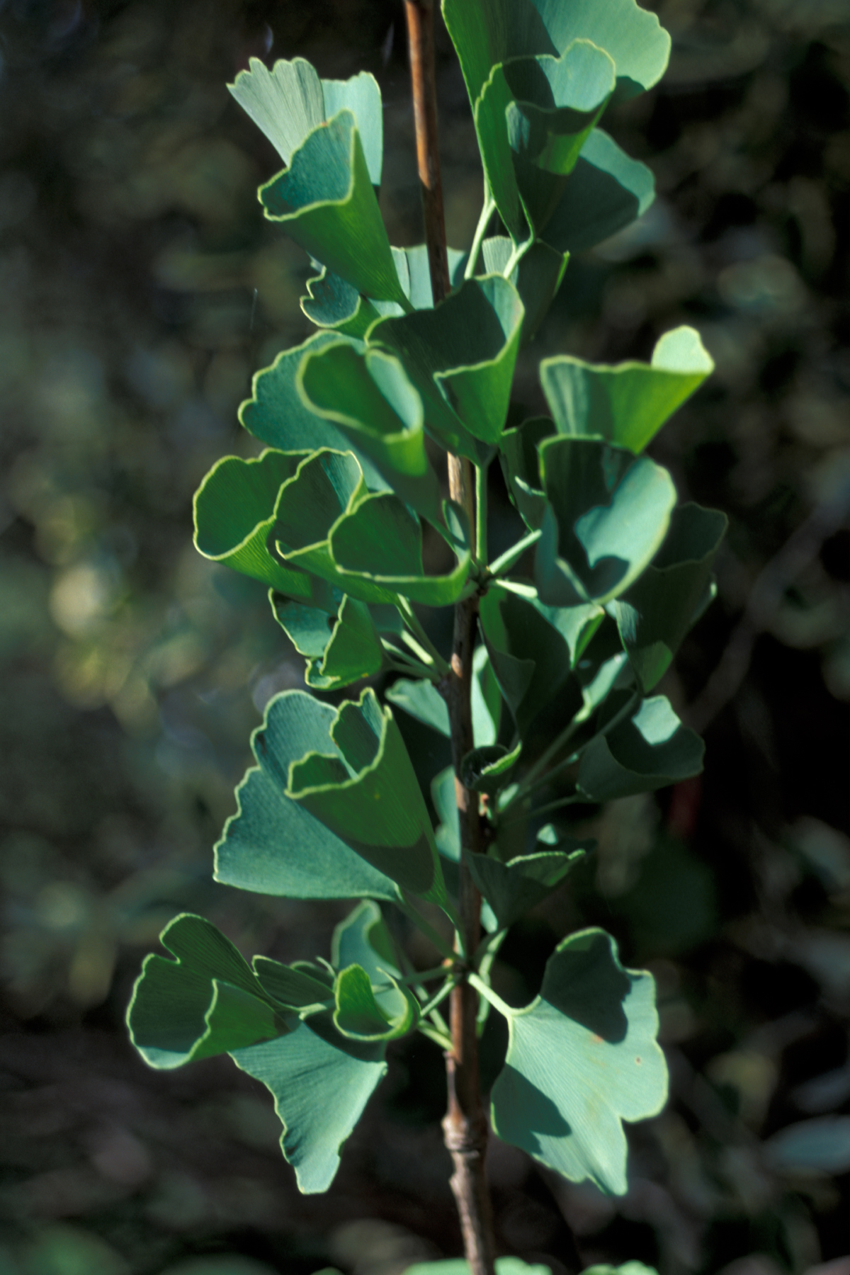 Ginkgo biloba (leaves). Location: Maui, Kula Experiment Station